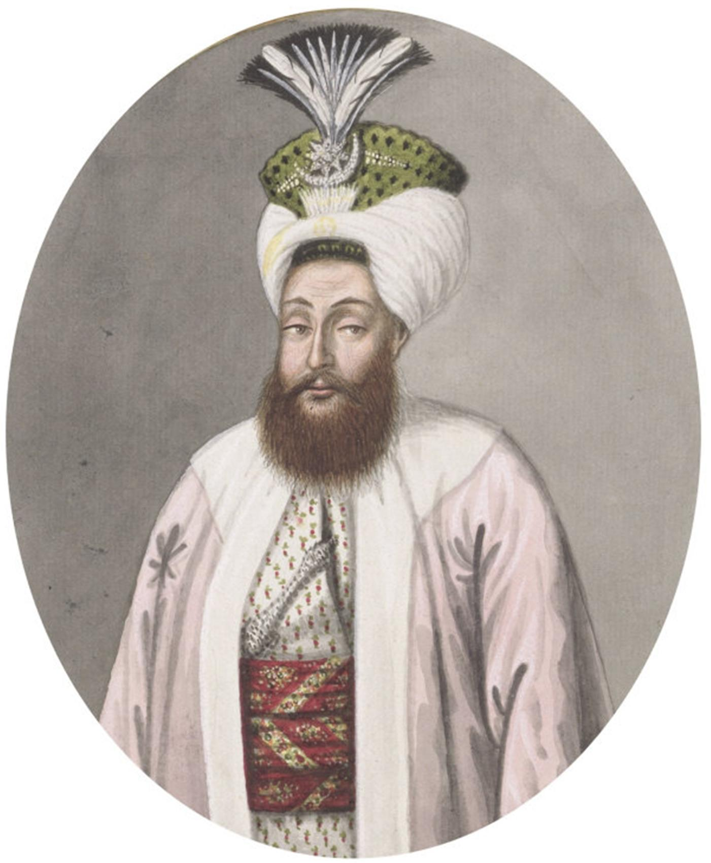 Portrait of Selim III, Sultan of the Ottoman Empire (1789-1807). The portrait has been printed using the Giclée process.